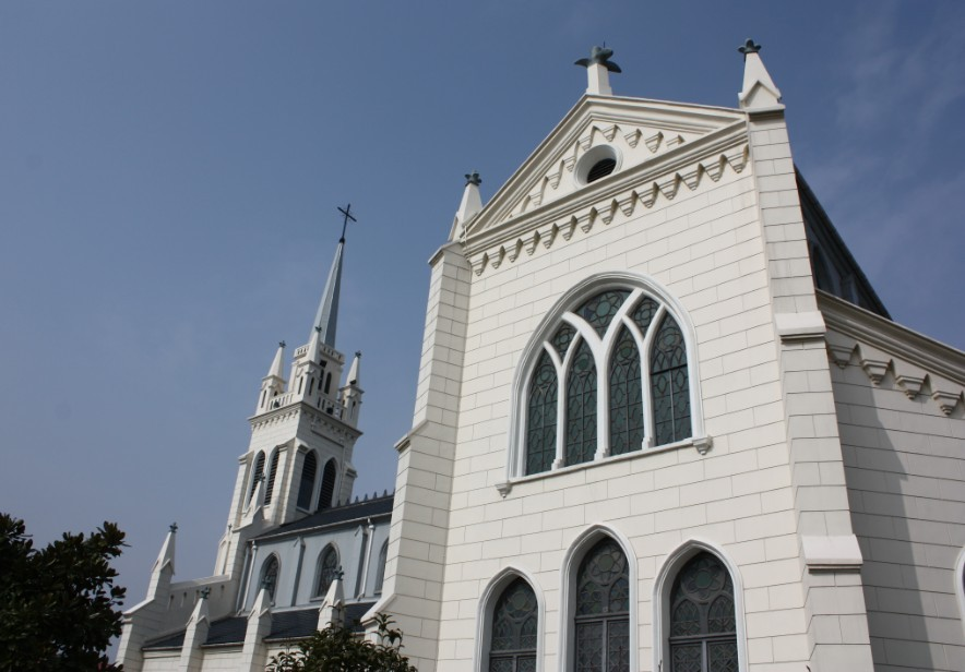 shanghai tangmuqiao catholic church